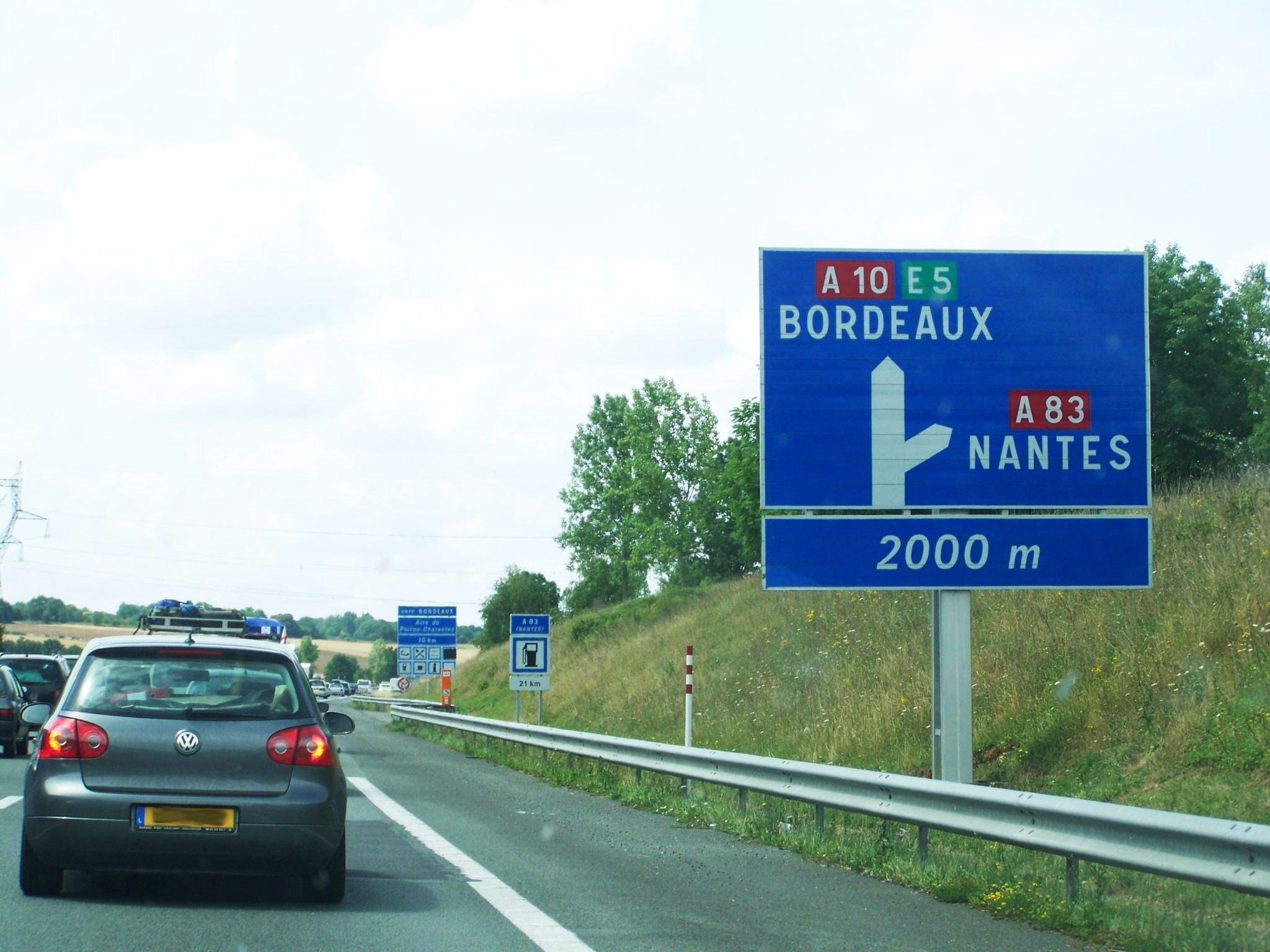 Sign indicating bifurcation to Nantes by French motorway A83, while coming from Paris with motorway A10, near Niort in Deux-Sèvres.